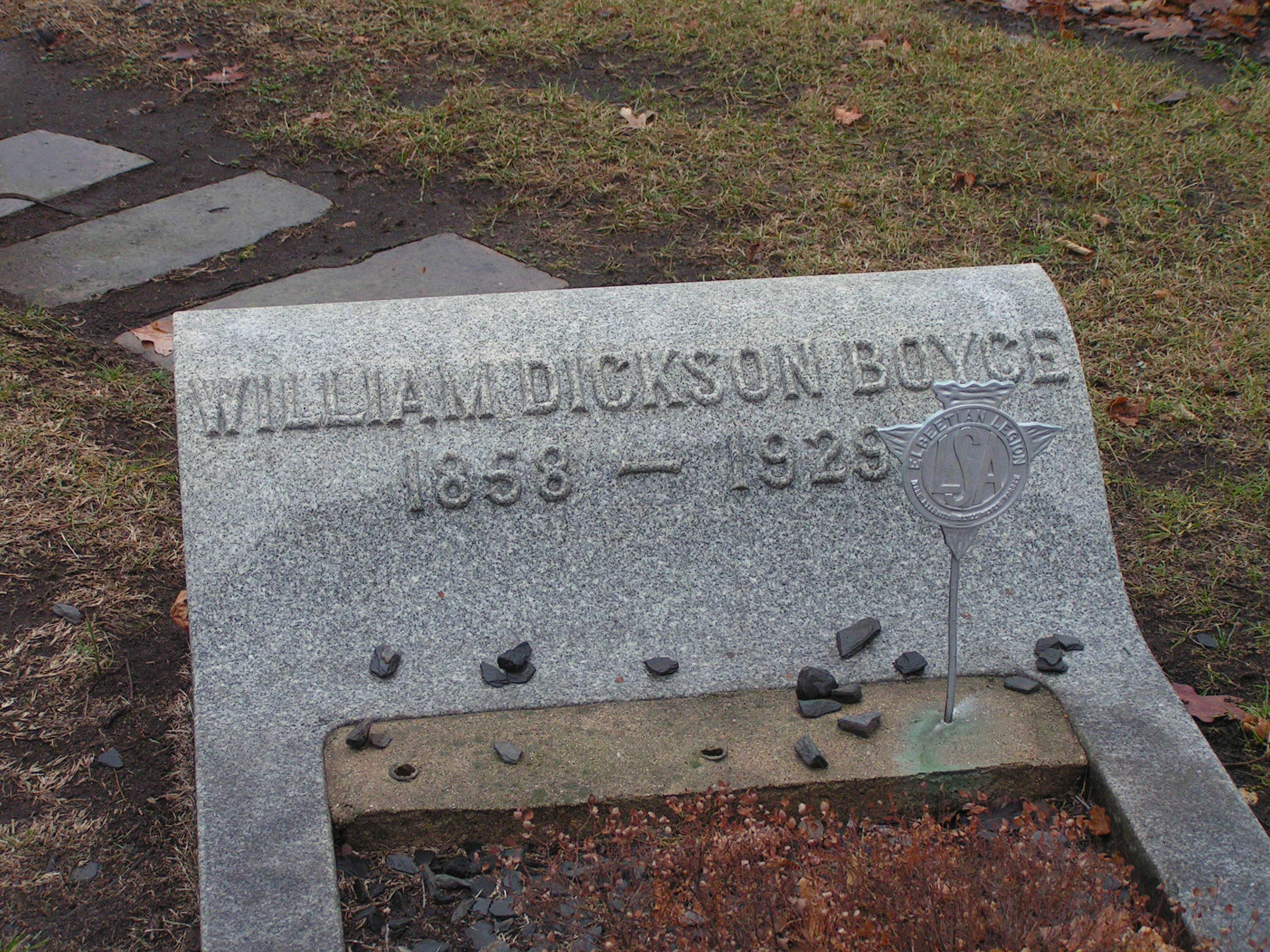 Graves of William D. Boyce, his wife Mary Jane Boyce, and their children in Ottawa, Illinois, USA. Boyce was a founder of the Boy Scouts of America.